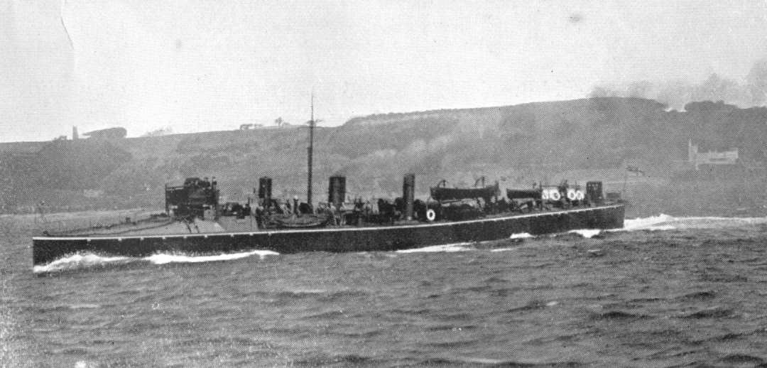 Photograph of British Sunfish class destroyer HMS Opossum.